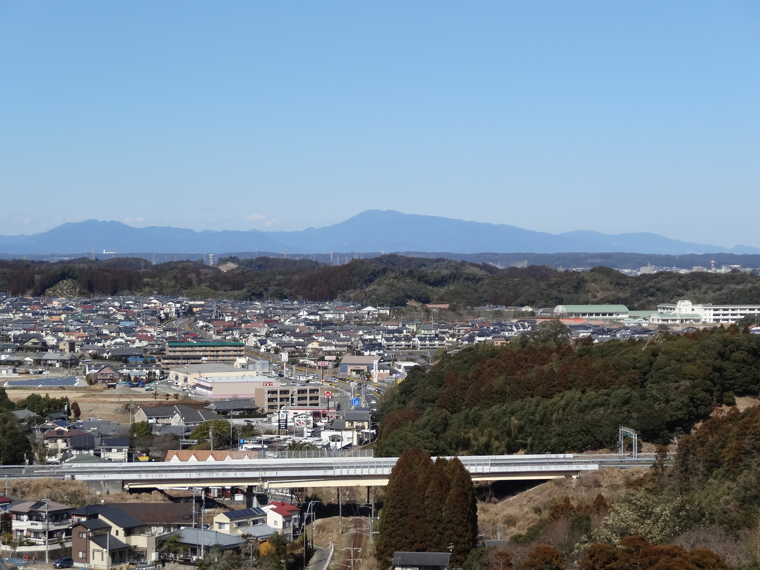 Ikeda-dai, Kiyotake Town, Miyazaki City, Japan